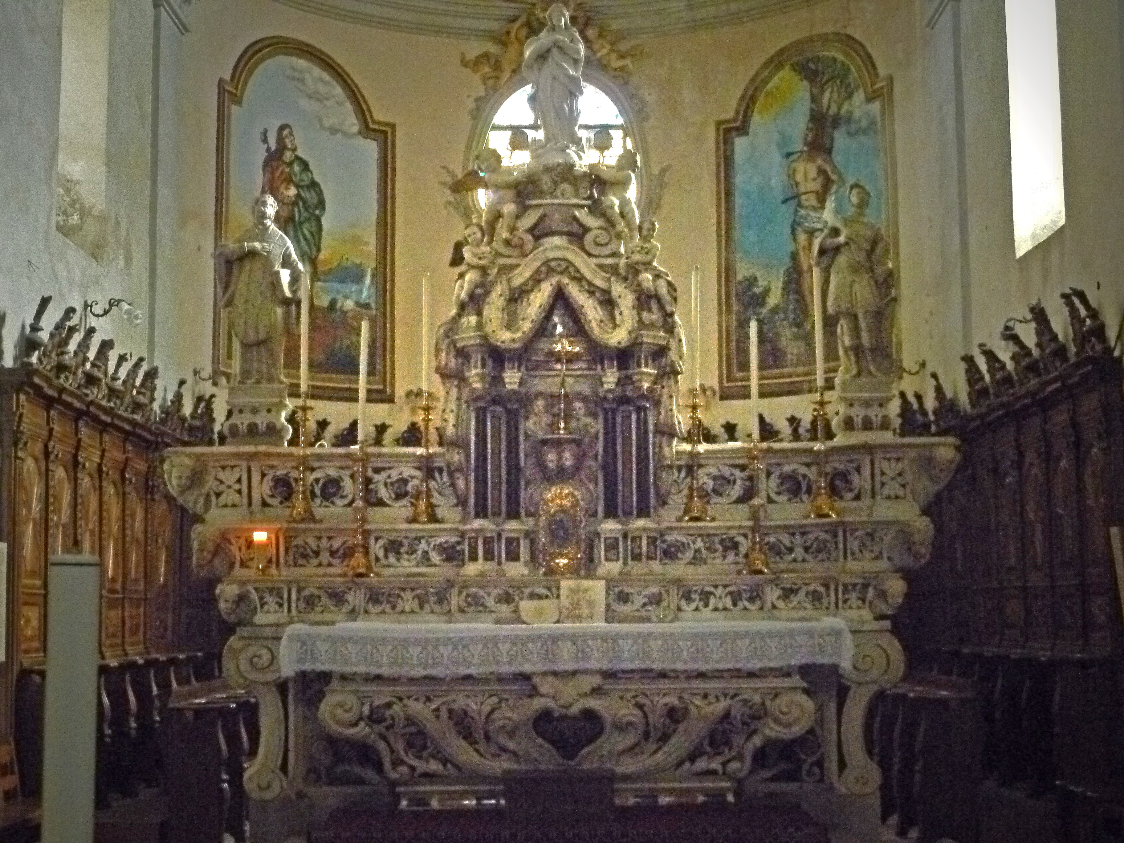 The high altar is of marble of the 17th century, crowned by statues of Our Lady of the Immaculate Conception and of Saints Emilius and Priamus, patrons of the town; interior of the Bosa Cathedral (Duomo di Bosa, Concattedrale dell'Immacolata Concezione), Bosa, Sardinia